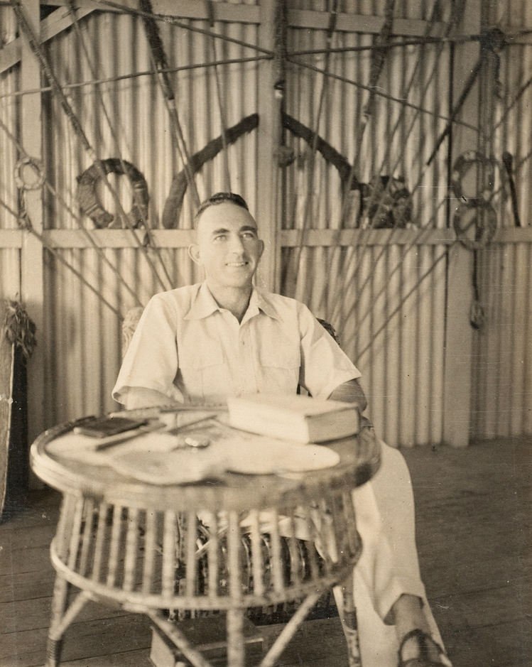 Physical Description : Photographs - 1 silver gelatin photoprint - 12 x 10 cm. Inscriptions : "Xavier Herbert / Darwin, N.T. / 1st April, 1938, day of receipt of news of winning of Sesqui Centenary Library Prize" -- inscribed on reverse in pencil